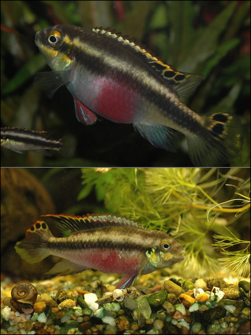 Author: Tino Strauss Combined image from: Image:Pelvicachromis pulcher (female).jpg and Image:Pelvicachromis pulcher (male).jpg